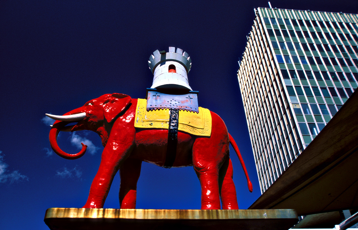 Description:Elephant and Castle, London Image taken by:laszlo-photo